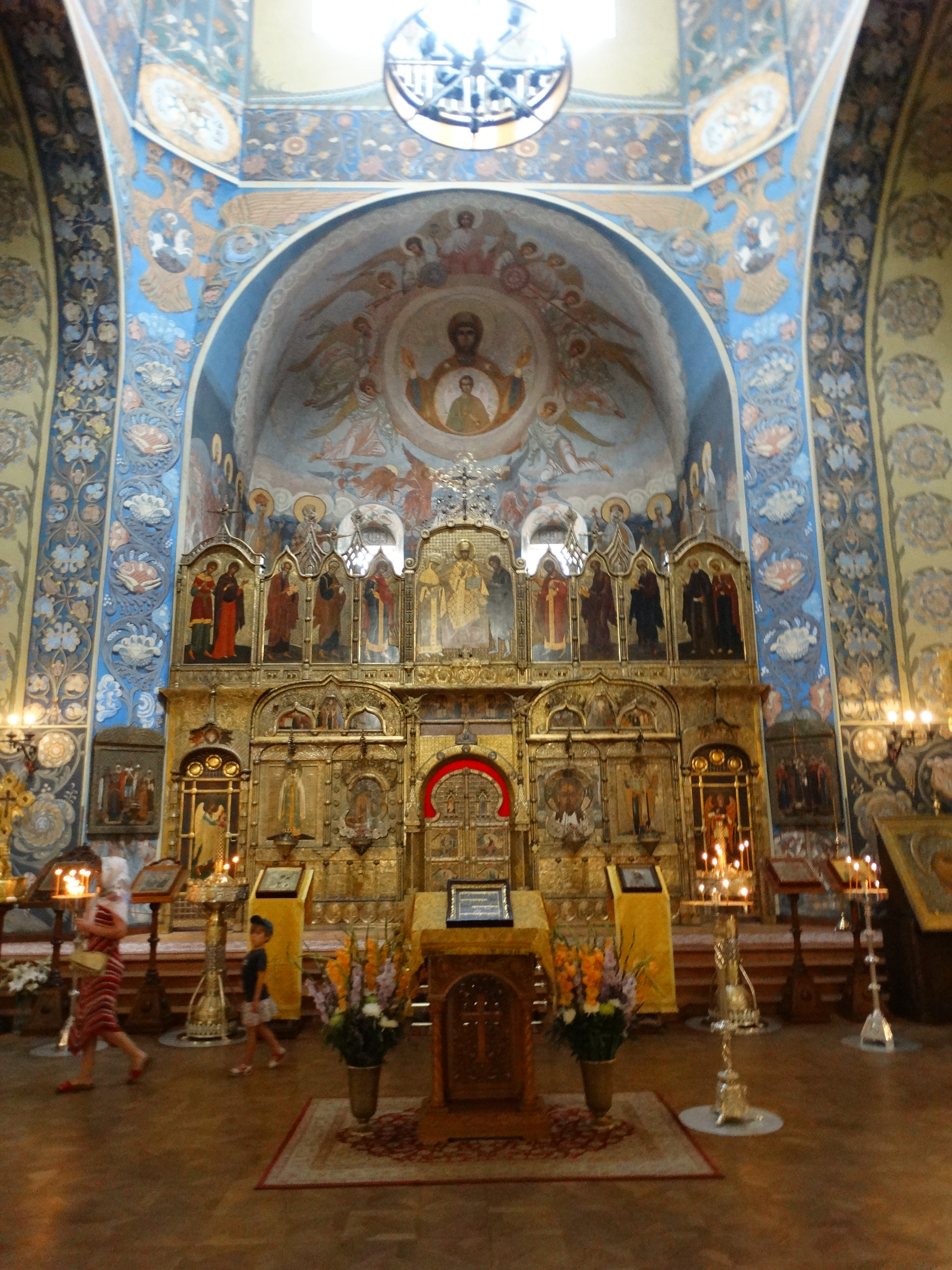 Altar of St. Nicolay Church in Nice